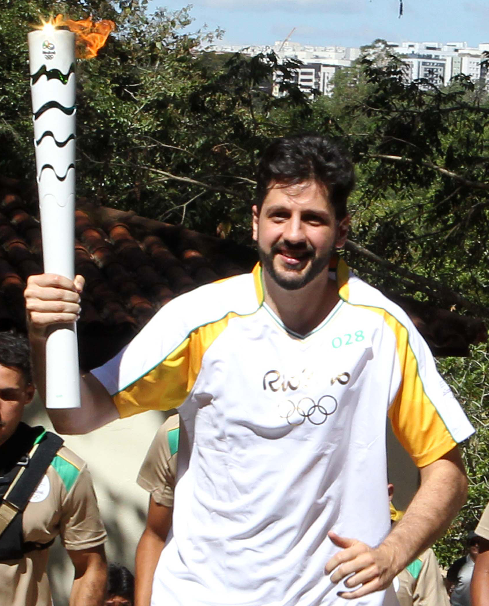 Brasília, DF, Brasil 3/5/2016 Foto: Toninho Tavares/Agência Brasília A tocha chegou ao Parque Nacional de Brasília, às 13h35 diante de aproximadamente 250 visitantes e 115 estudantes de escolas públicas. O quarto condutor dentro do parque foi o ala/pivô de basquete Guilherme Giovannoni, que atua pelo time do Brasília e esteve nas Olimpíadas de Londres, em 2012, com a seleção brasileira.